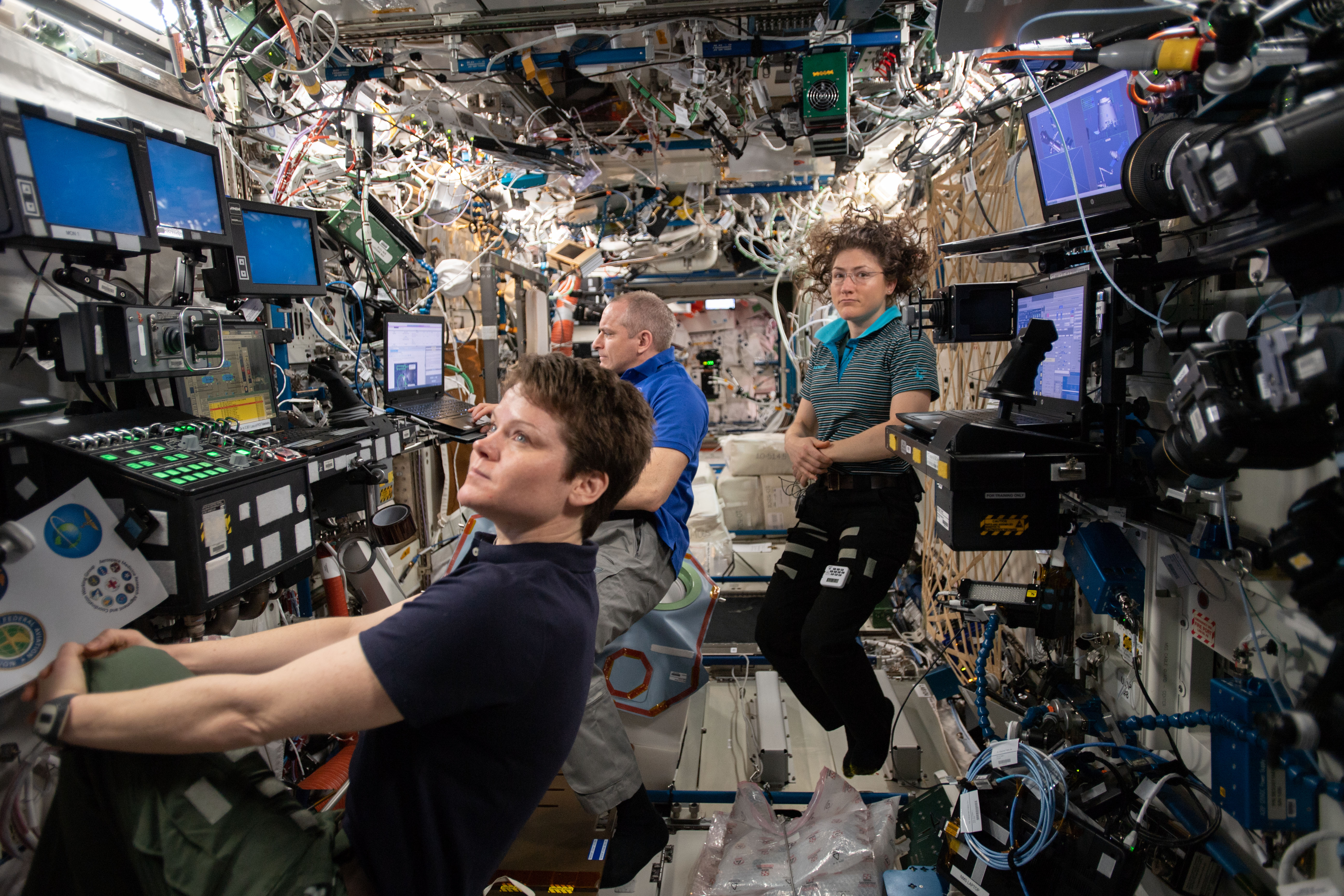 Expedition 59 Flight Engineers (from left) Anne McClain, David Saint-Jacques and Christina Koch are gathered inside the U.S. Destiny laboratory.